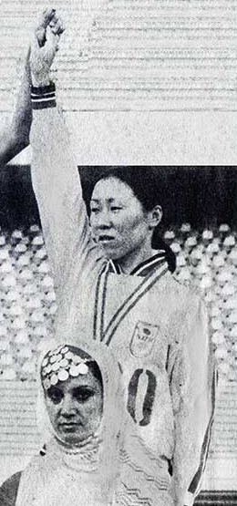 Long jump podium at the 1974 Asian Games in Tehran. Hiroko Yamashita